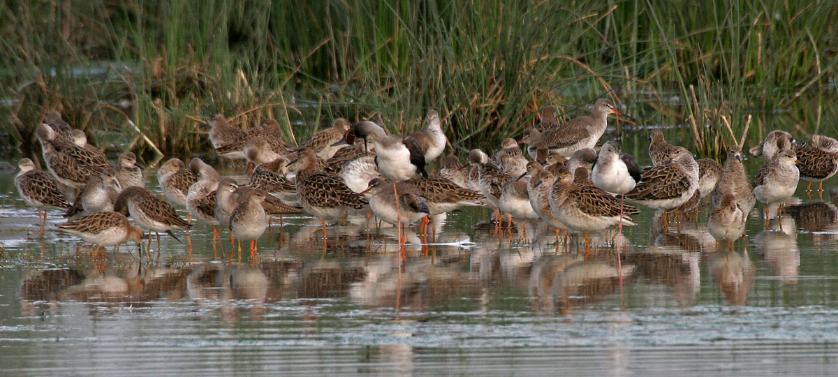 Ruff Philomachus pugnax, Black-winged Stilt Himantopus himantopus, Common Teal Anas crecca, Wood Sandpiper Tringa glareola & Common Redshank Tringa totanus near Hodal, Faridabad, Haryana, India.